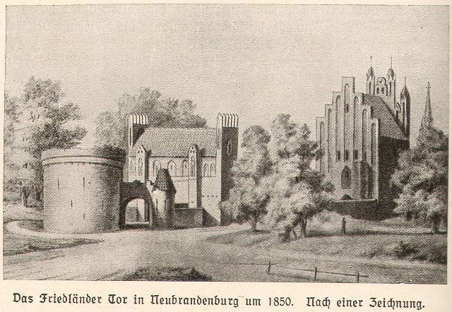 The Friedländer Tor (gate), one of the four city gates in the German town Neubrandenburg, Mecklenburg.